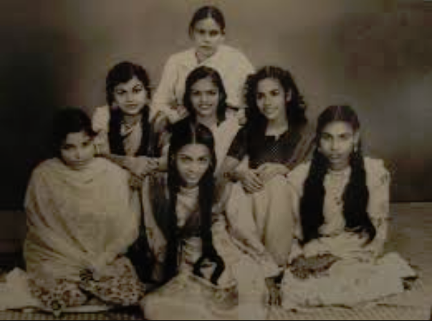 Khadija Mastoor and Hajra Masroor with their mother and sisters.